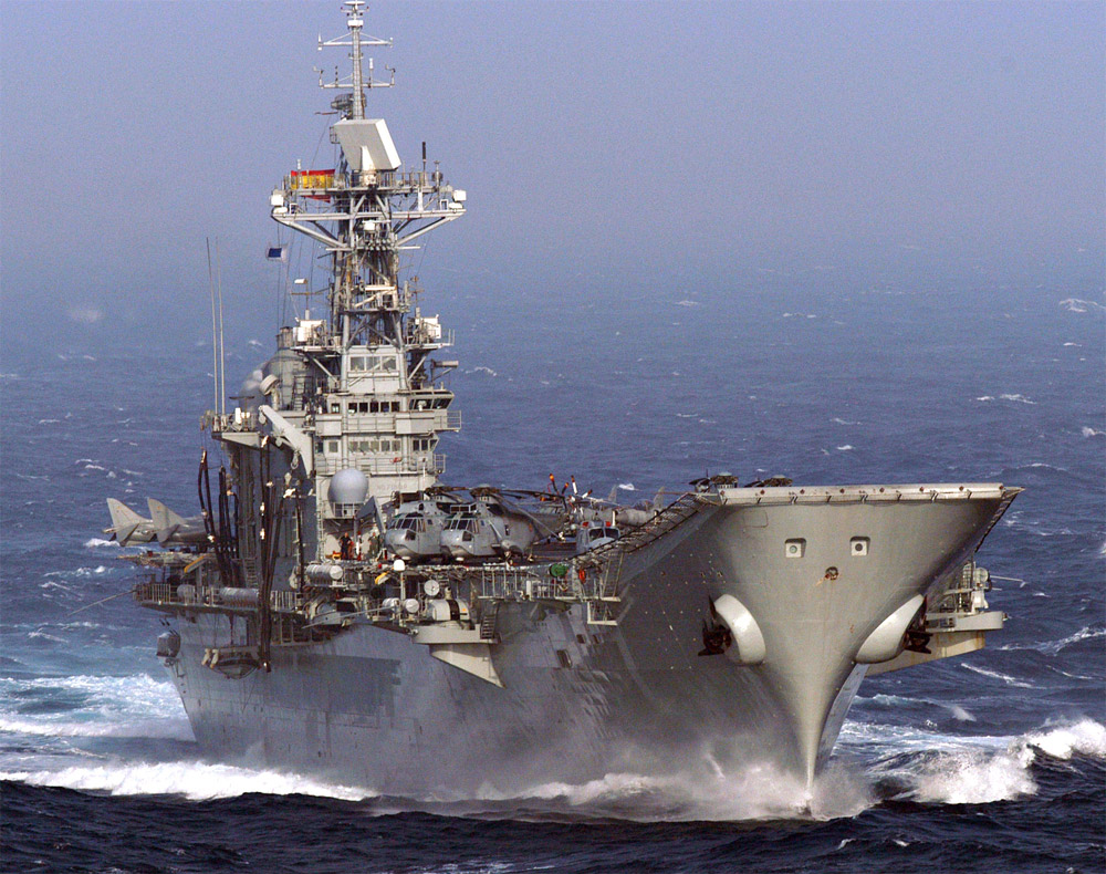 040712-N-7263H-028 Atlantic Ocean (July 12, 2004) - The Spanish aircraft carrier SPS Principe De Asturias (R 11) steams through the Atlantic Ocean while participating in Majestic Eagle 2004. Majestic Eagle is a multinational exercise being conducted off the coast of Morocco. U.S. Navy photo by Photographer's Mate 3rd Class William Howell (RELEASED)